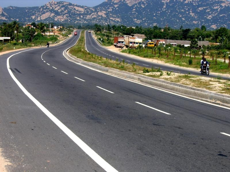 NH 73 from Bangalore